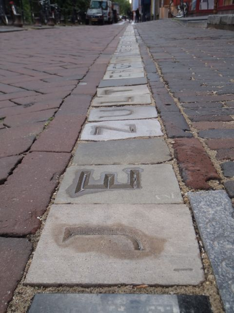 Close-up photo of the beginning of the Letters of Utrecht, a poem in the cobblestones of a street in Utrecht, The Netherlands. The beginning is in front of Oudegracht number 279.